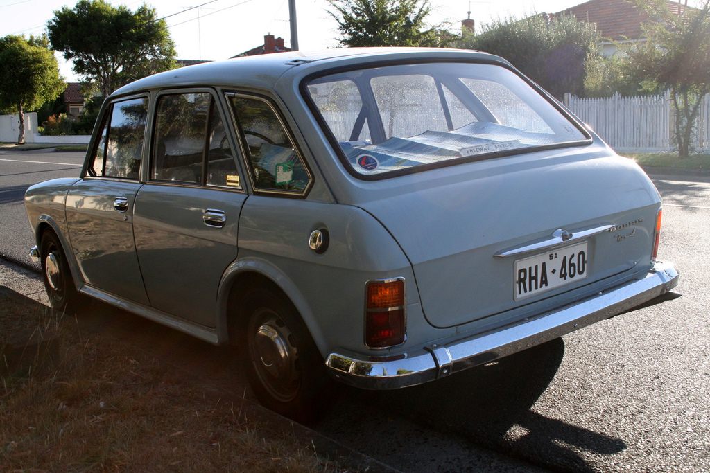 Rear view of the Morris Nomad, an Australian derivative of the ADO16 design.